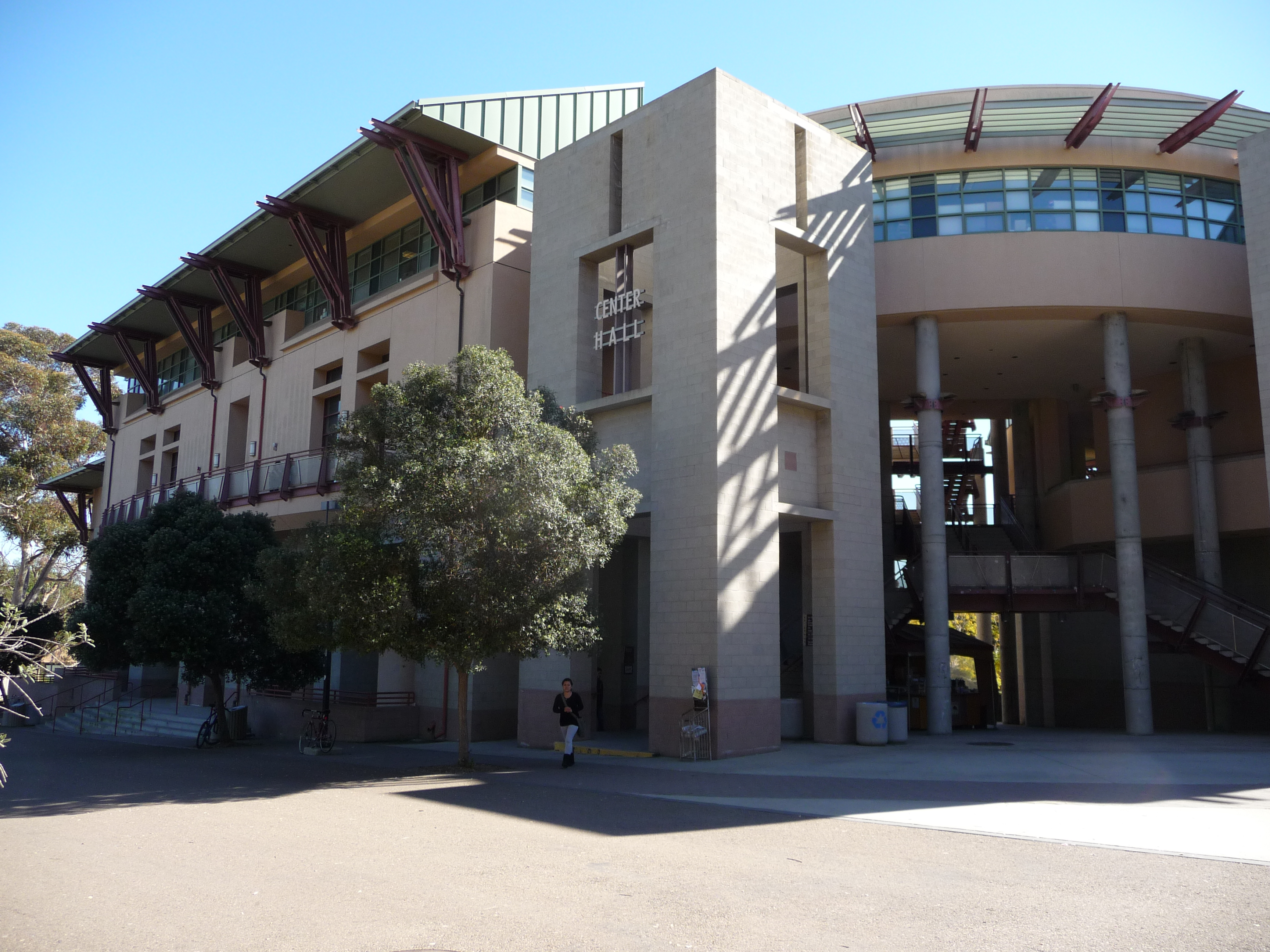 The front of Center Hall in University Center at UCSD.